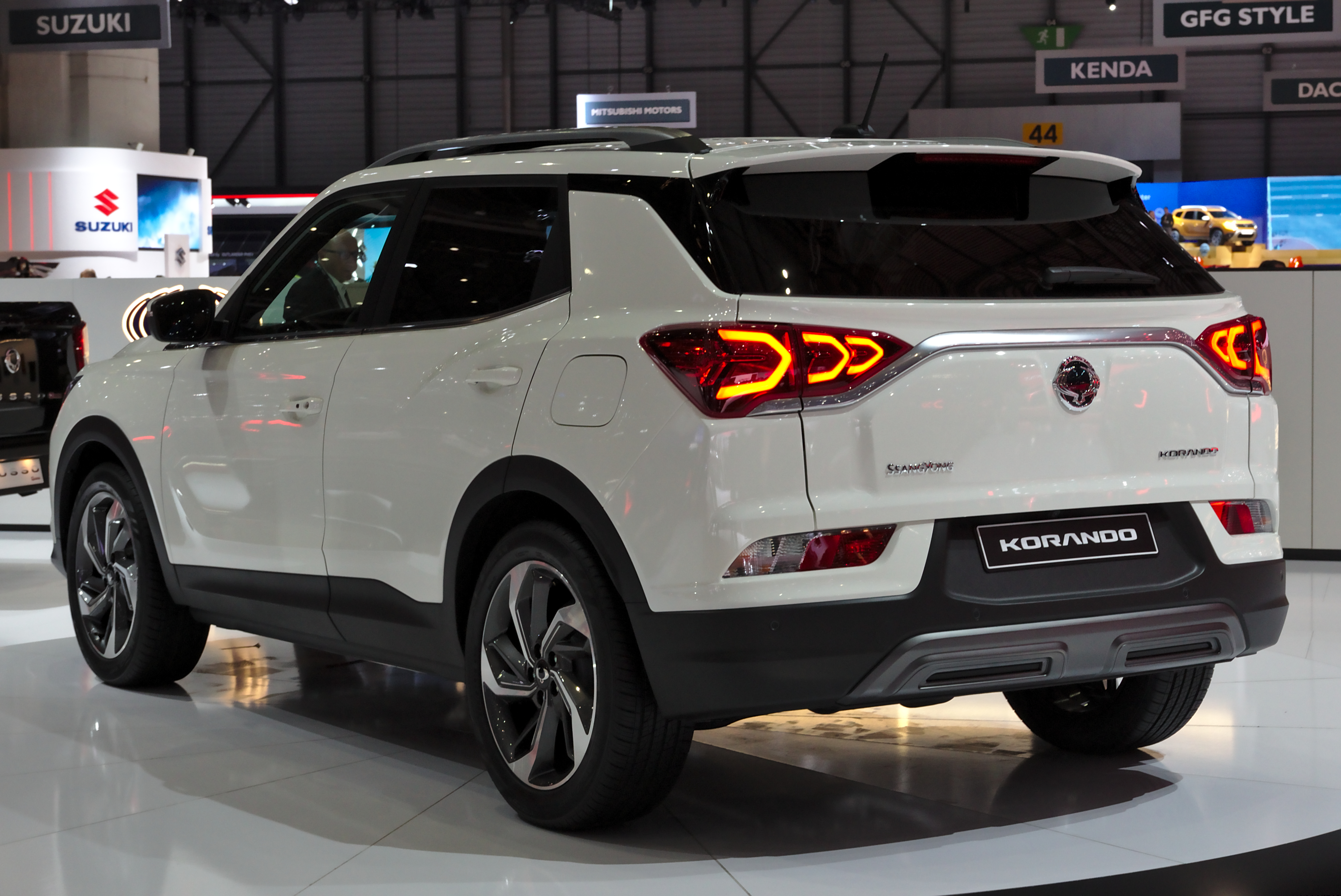 Ssangyong Korando at Geneva Motor Show 2019